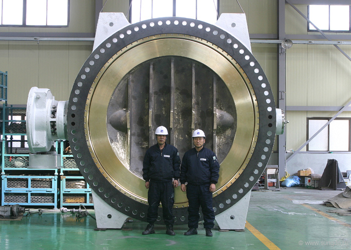 The Big DN modern butterfly valve.